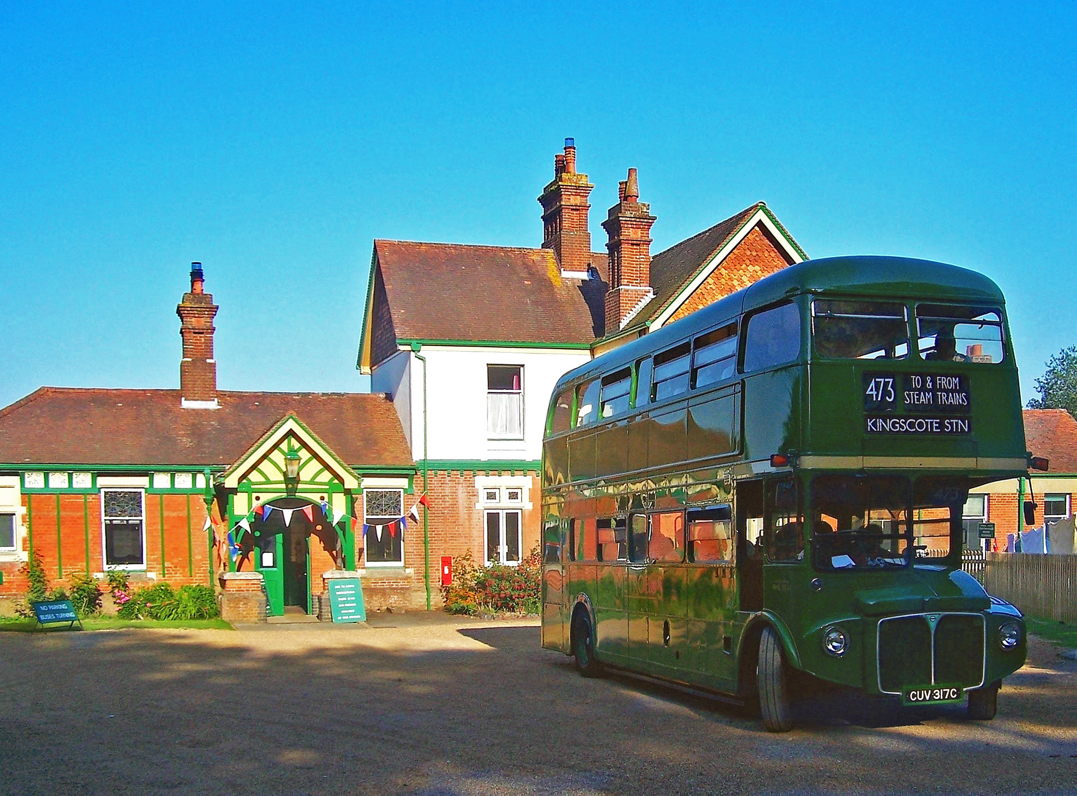 Kingscote Station on the Bluebell Railway with AEC Routemaster on Route 473 East Grinsted - Kingscote service